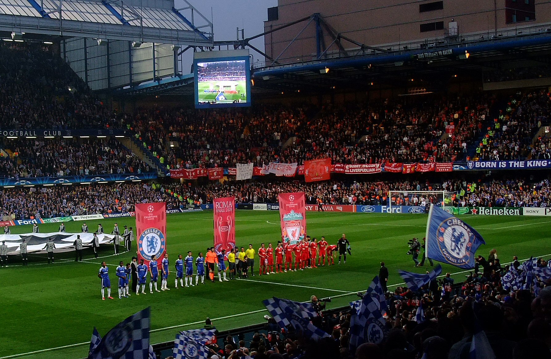 View from the West Stand, Stamford Bridge during a Champions League game